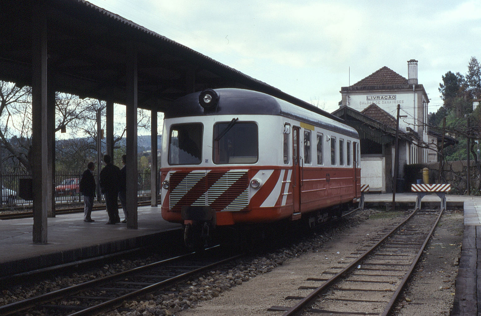 Seen in the bay platform at Livração is single metre gauge railcar no. 9101. Train was 6009, 15:55 Livração to Amarante taken on 7 November 1993. Note the yellow band above the window close to the cab. Standard practice for first class, although this was limited to just 8 seats almost identical to second class ones.